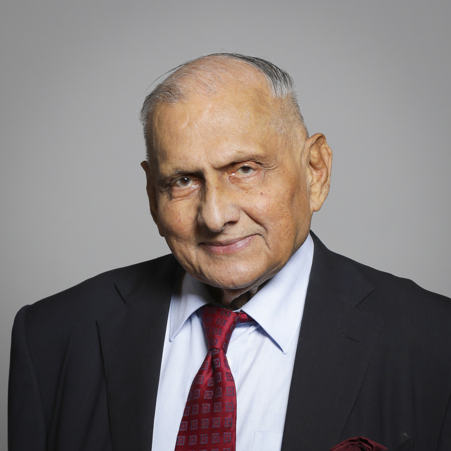 Official portrait of Lord Bhatia 1×1 portrait of Lord Bhatia